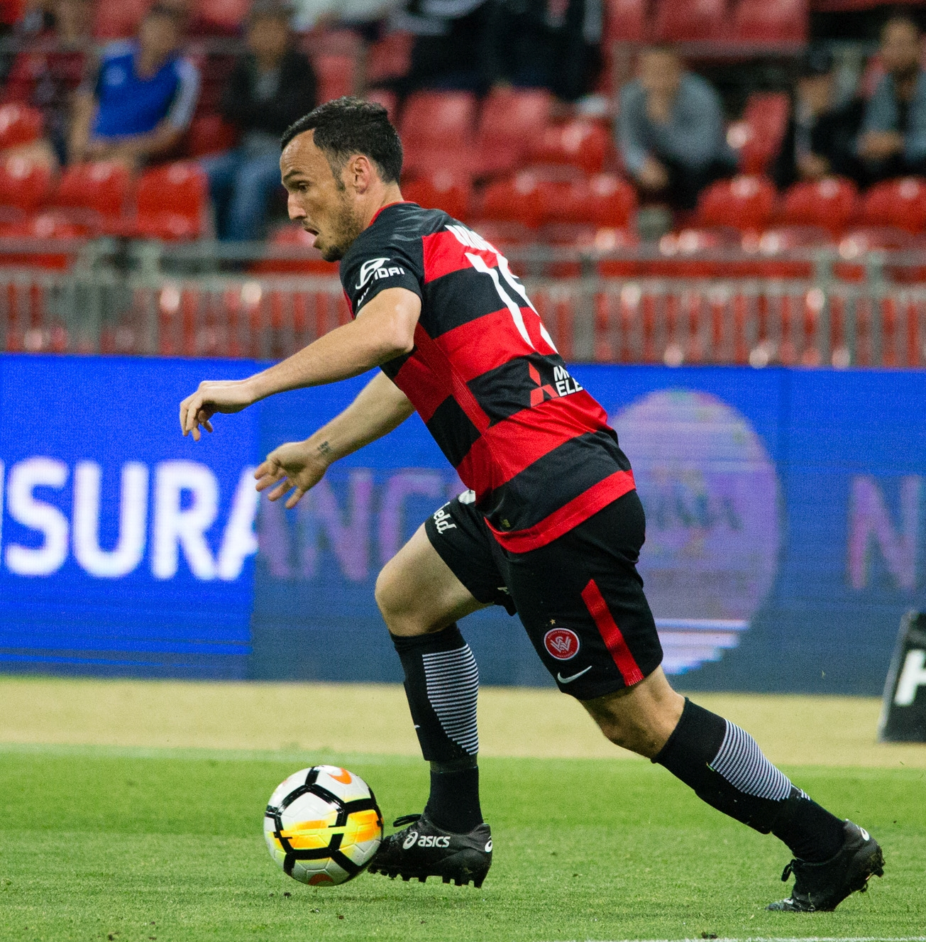 Mark Bridge playing for Western Sydney Wanderers